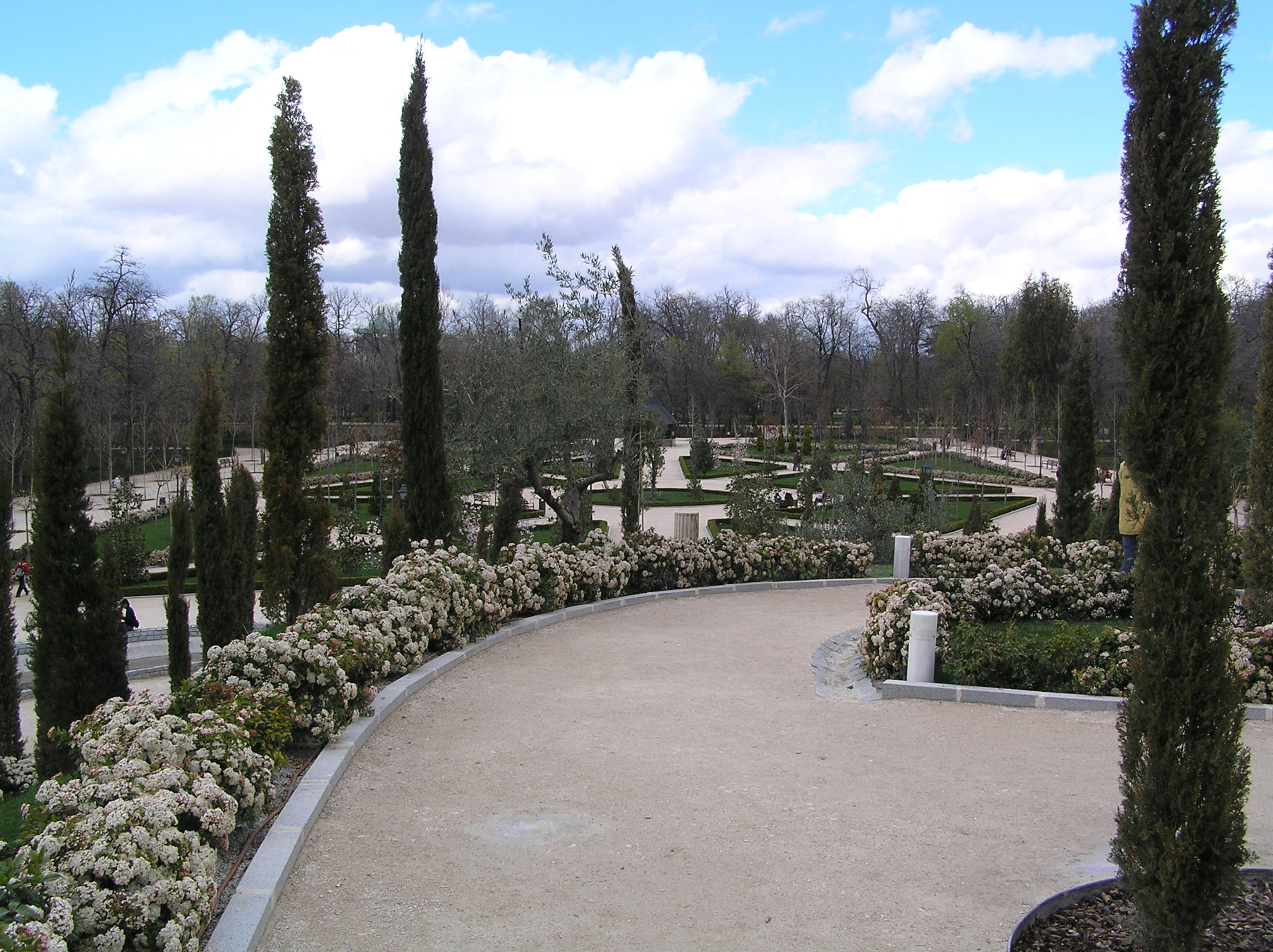 Bosque de los Ausentes (memorial for the victims of the 11-M terror blasts in Madrid), parque del Retiro, Madrid, Spain Author: Mr. Tickle Date: March 20th, 2006 Place: Madrid (Spain)